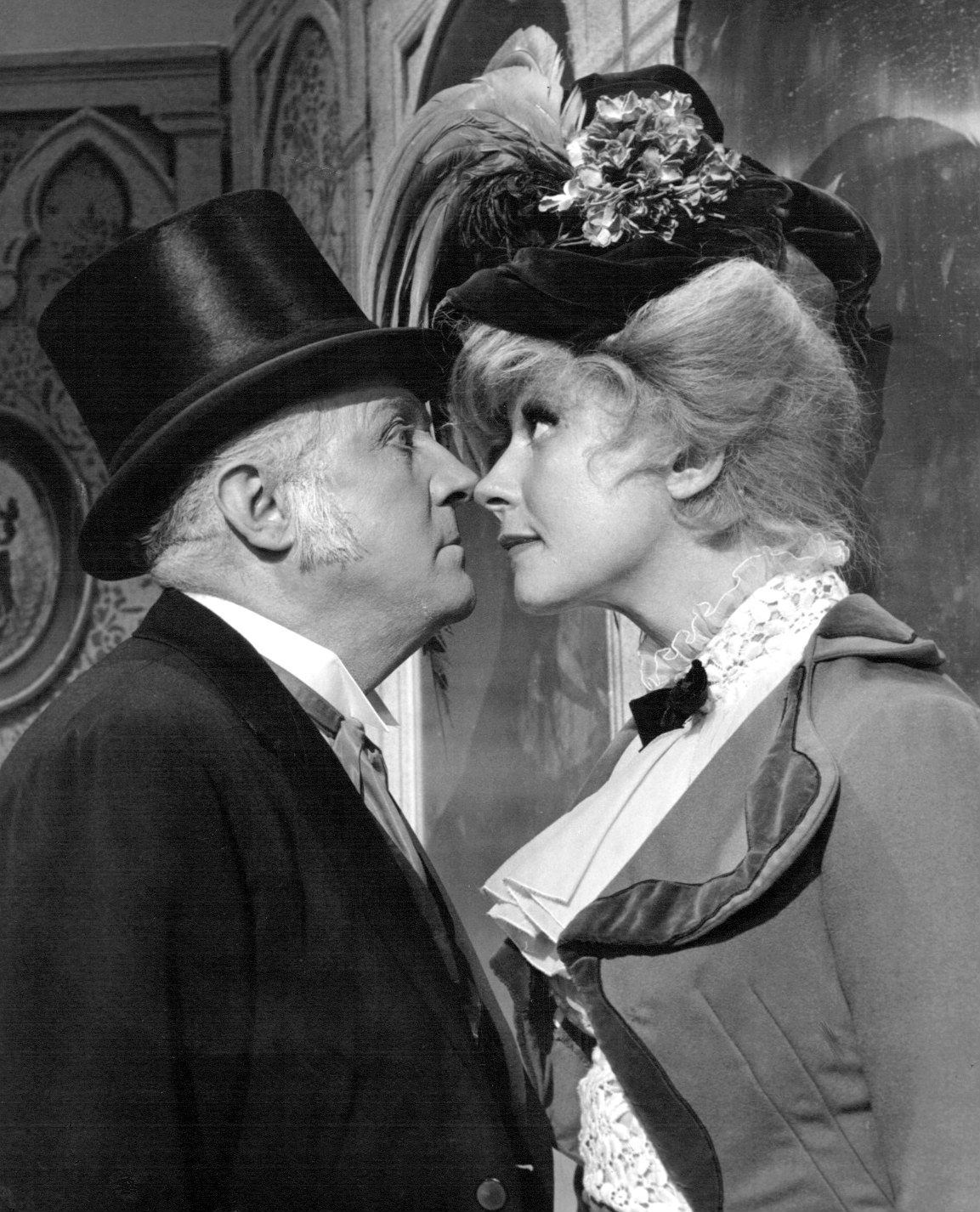 Photo of Carol Channing as Dolly Levi and Milo Boulton as Horace Vandergelder from the Broadway presentation of Hello, Dolly!.